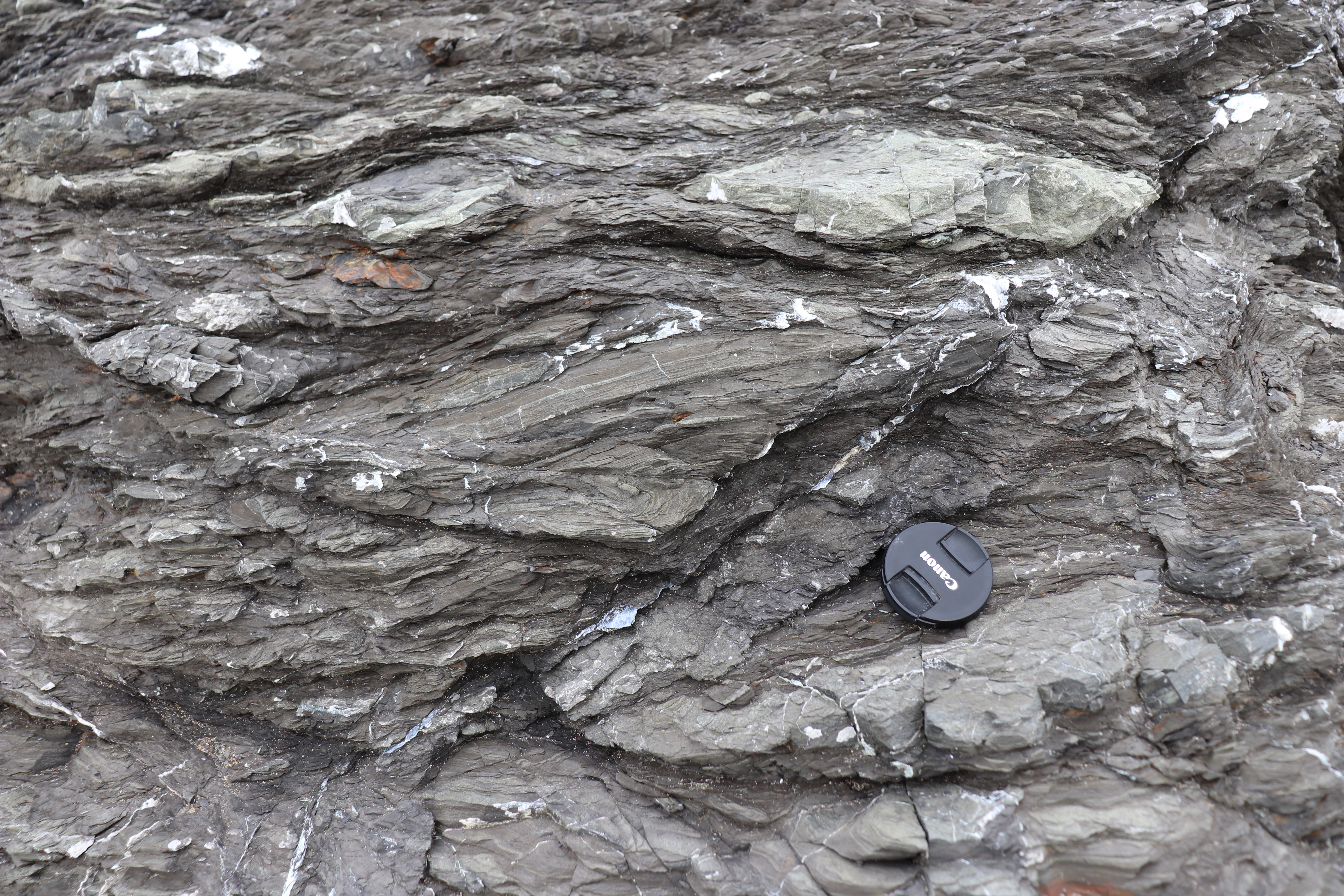 Typical Franciscan shale-matrix mélange with clasts of sandstone and greenstone on Marshall's Beach, San Francisco, USA. Lens cap for scale = 55 mm.